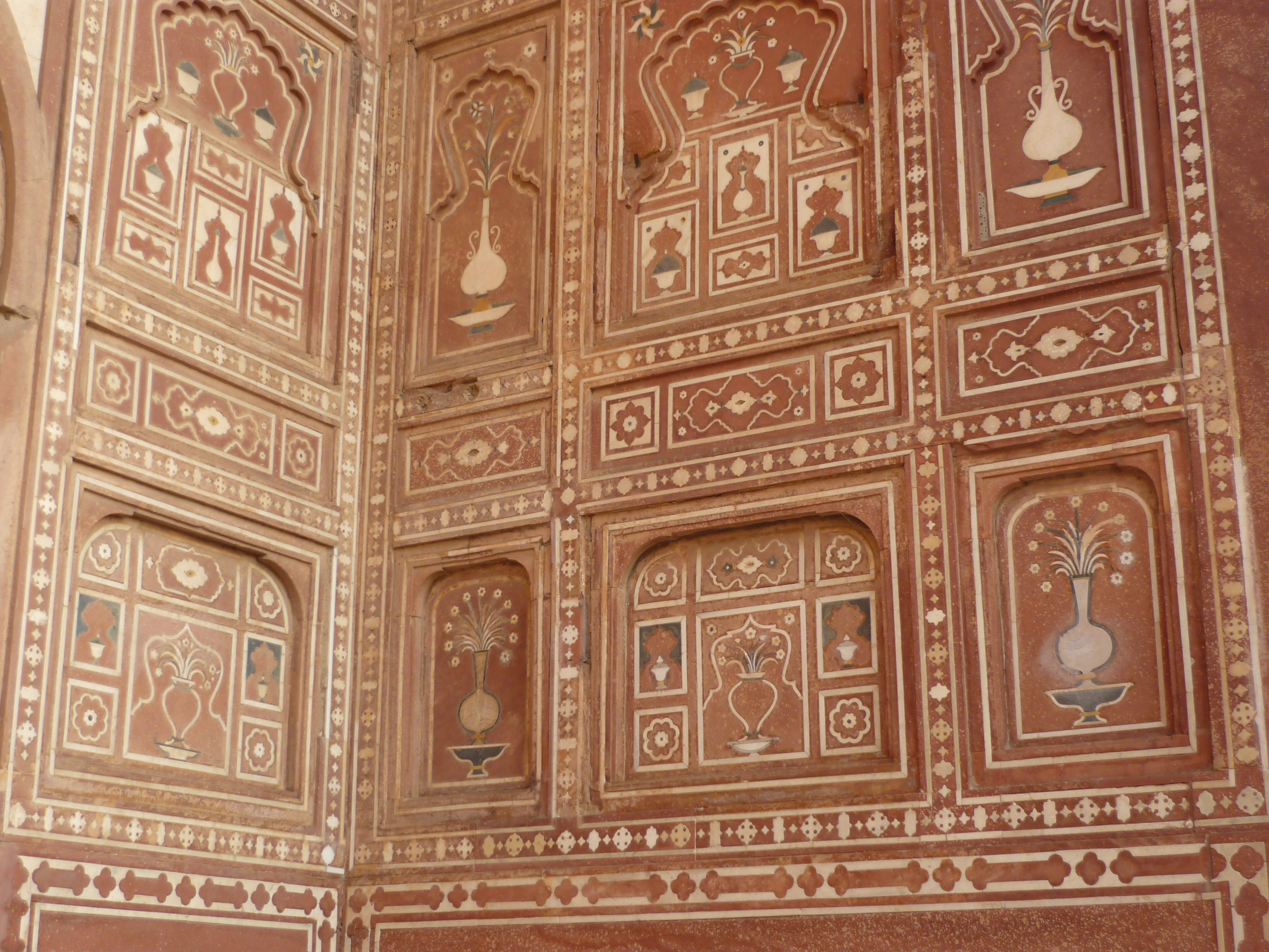 Jahangir's tomb - art-work